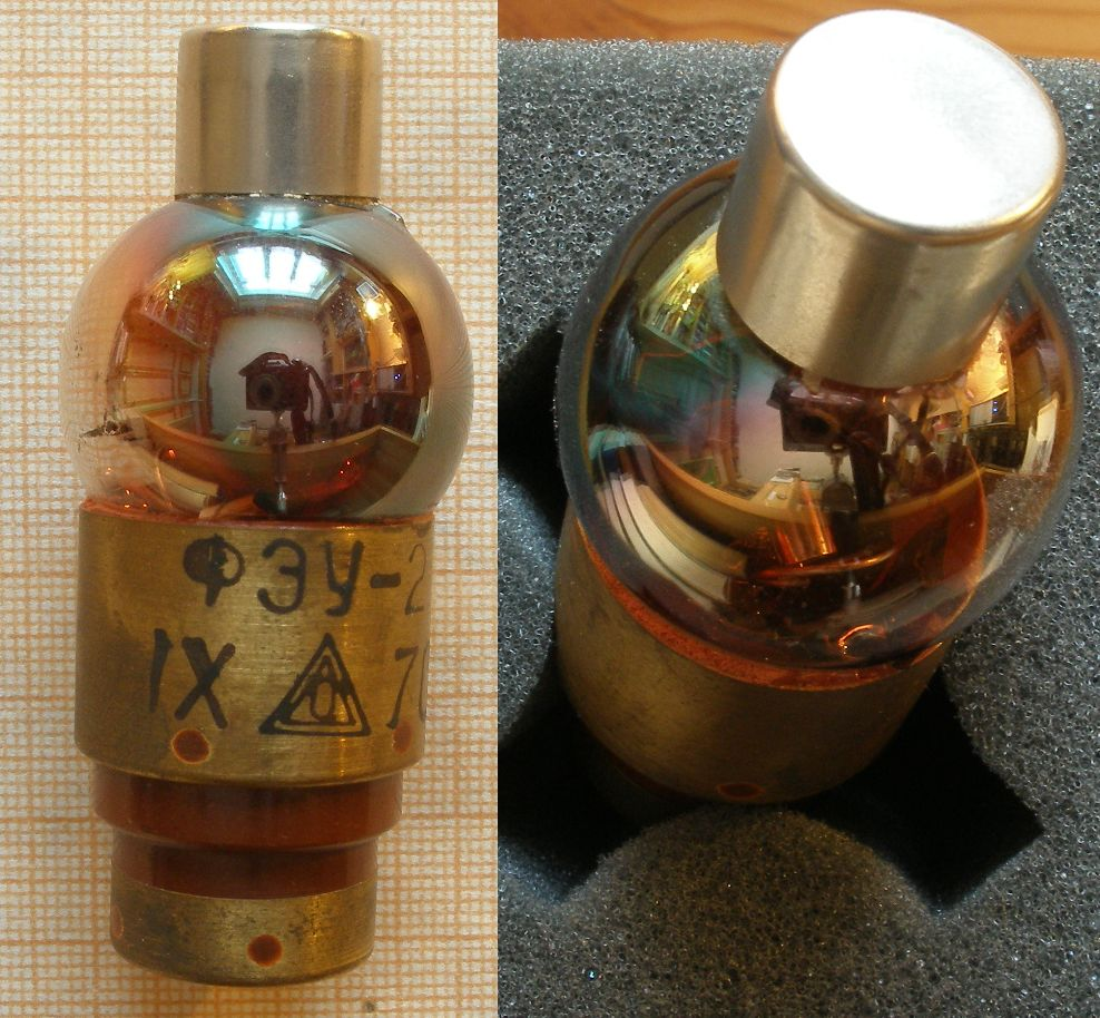 Photomultiplier FEU-2 (ФЭУ-2). Manufactured in exUSSR, 1970.